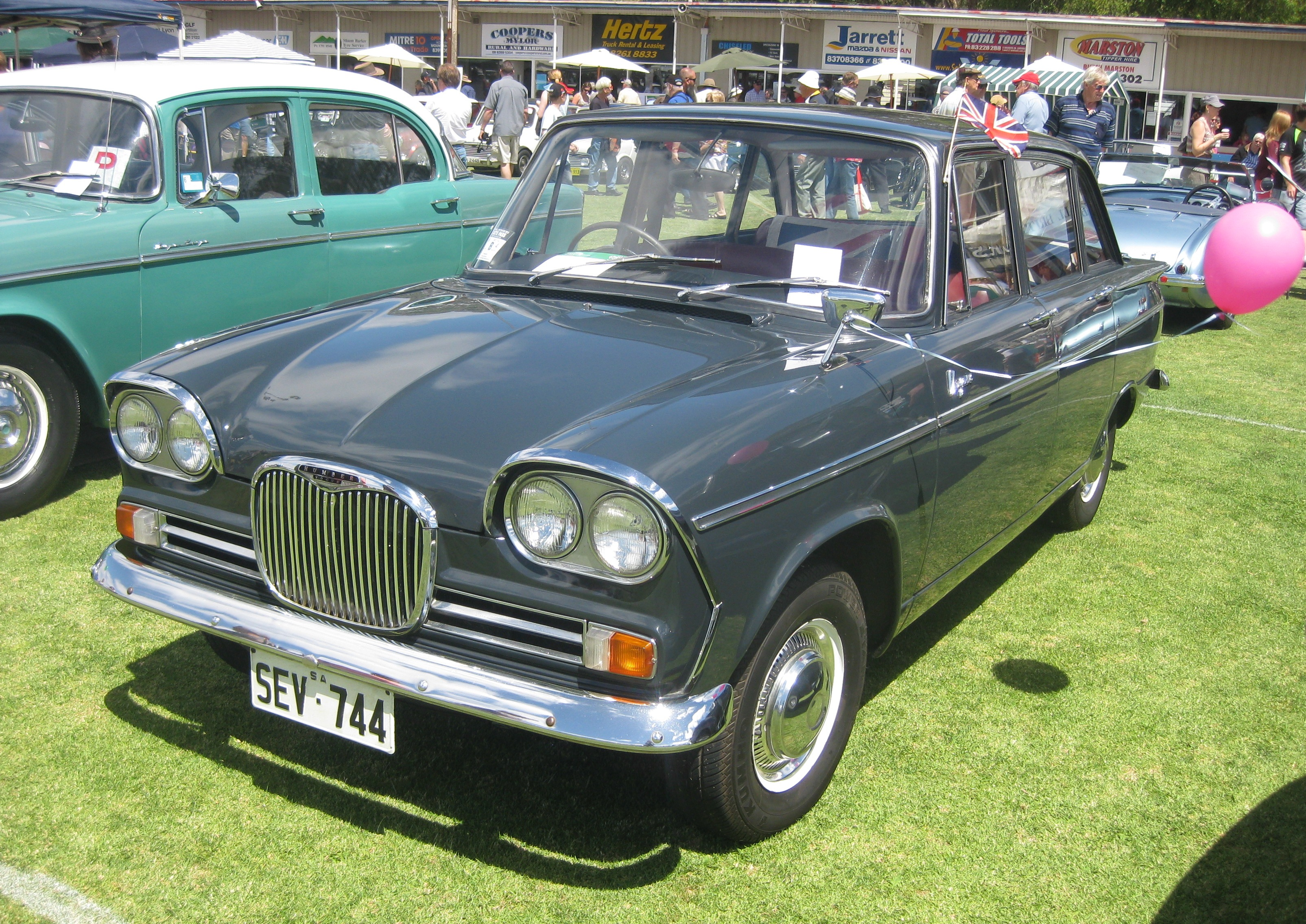 Humber Vogue Series III of 1965. As produced by Rootes Australia, based on the Singer Vogue